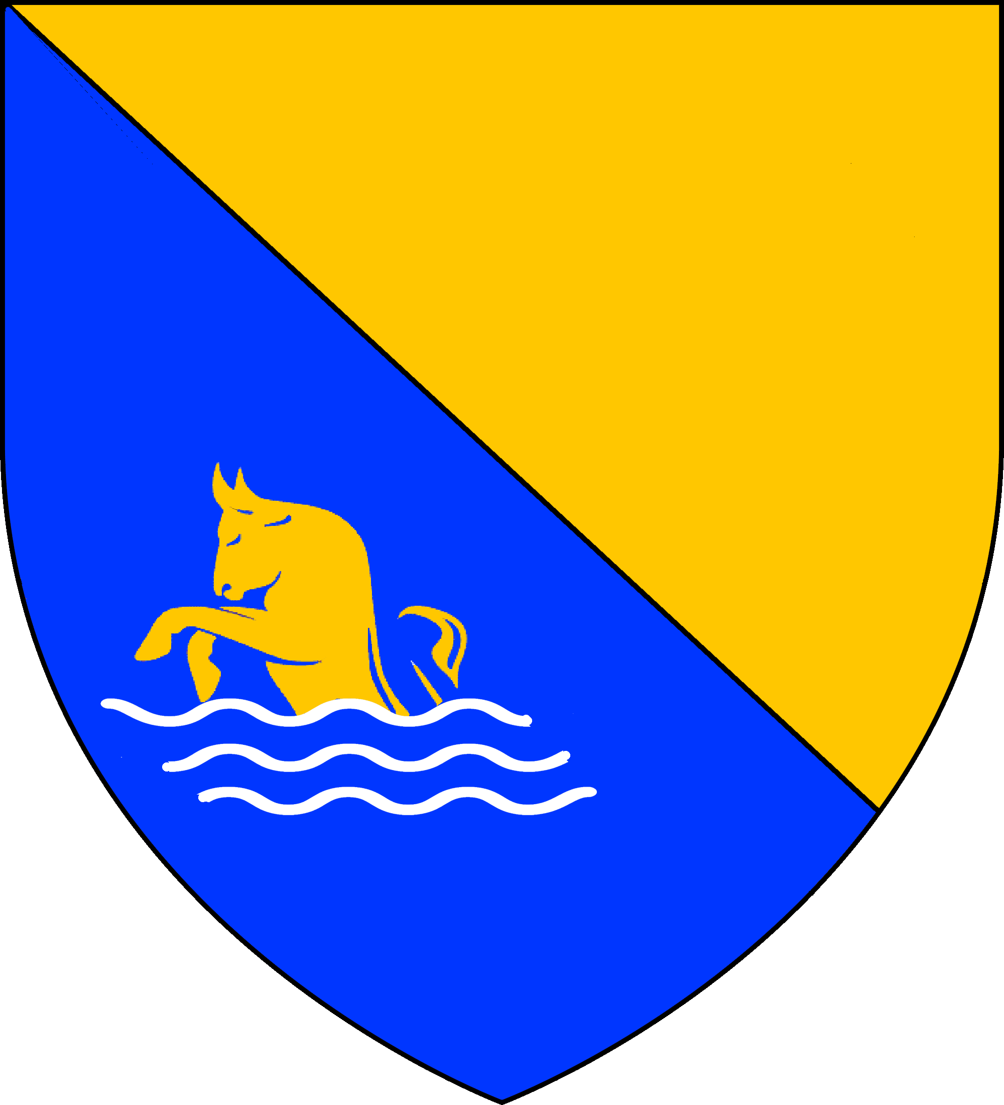 (Stemma dei Corvino)